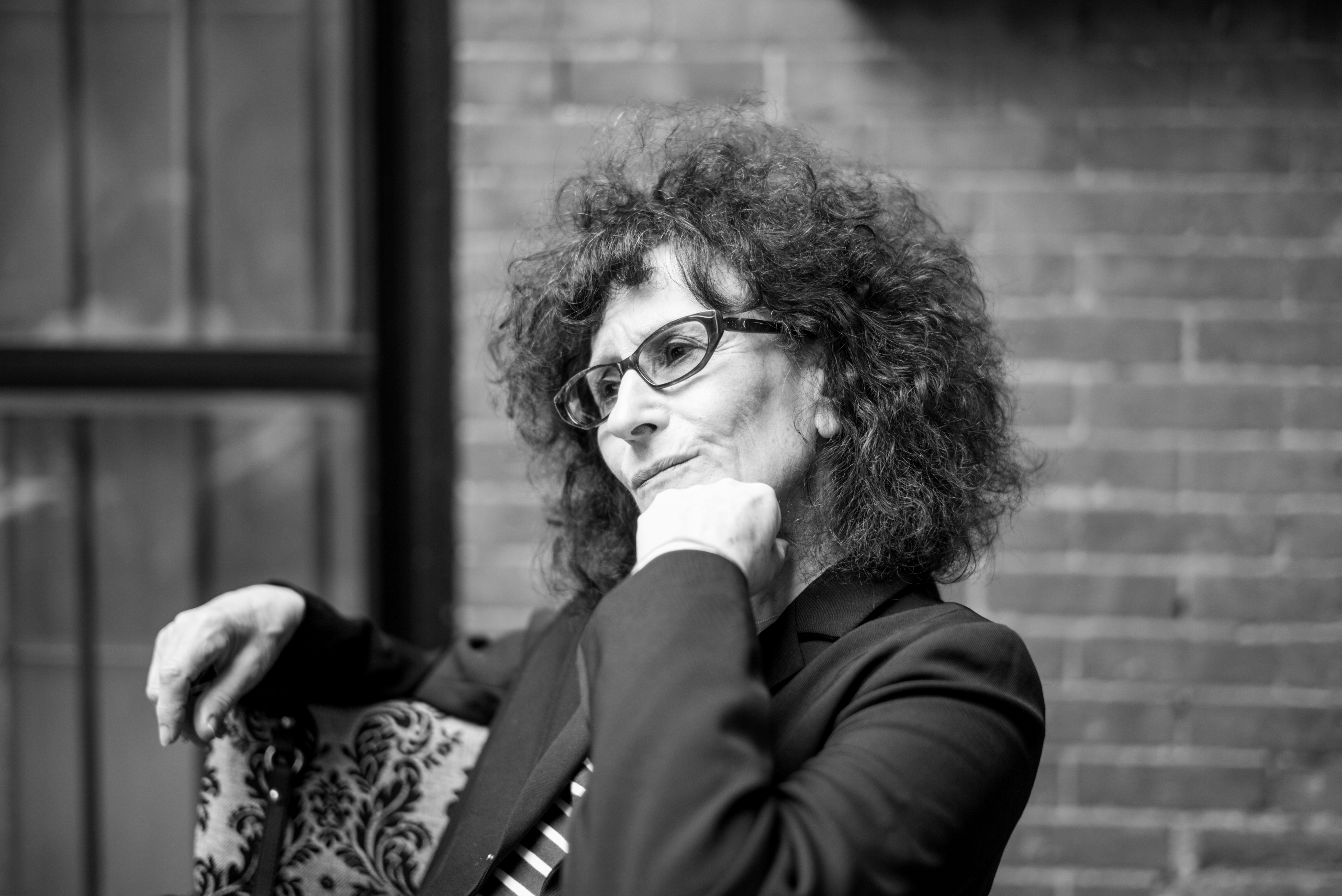 Portrait of novelist and author Lynne Tillman, sitting in the courtyard of the Norwood club in Manhattan in 2016. Taken by Craig Mod.